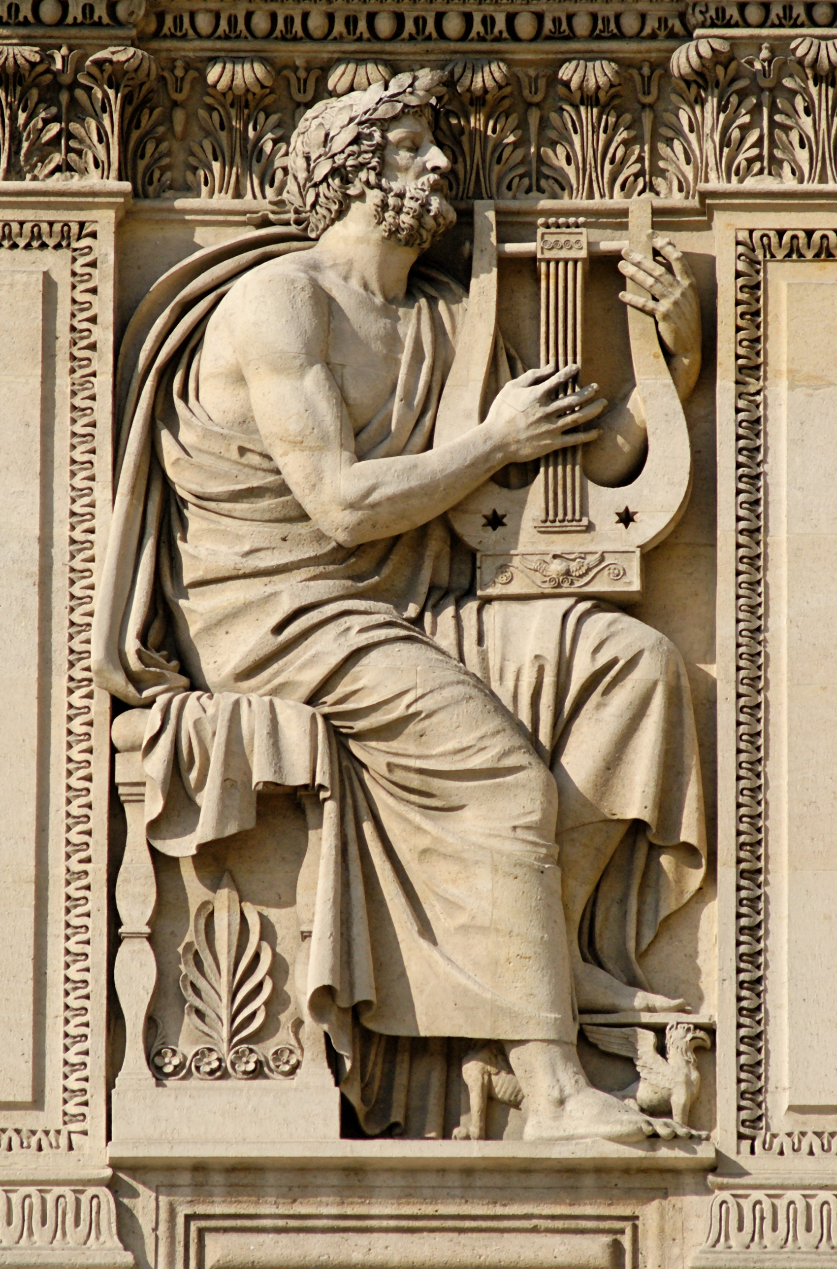 Homer by Antoine-Denis Chaudet, 1806. Relief on the left of the right window, droite part of the West façade of the cour Carrée in the Louvre palace, Paris.